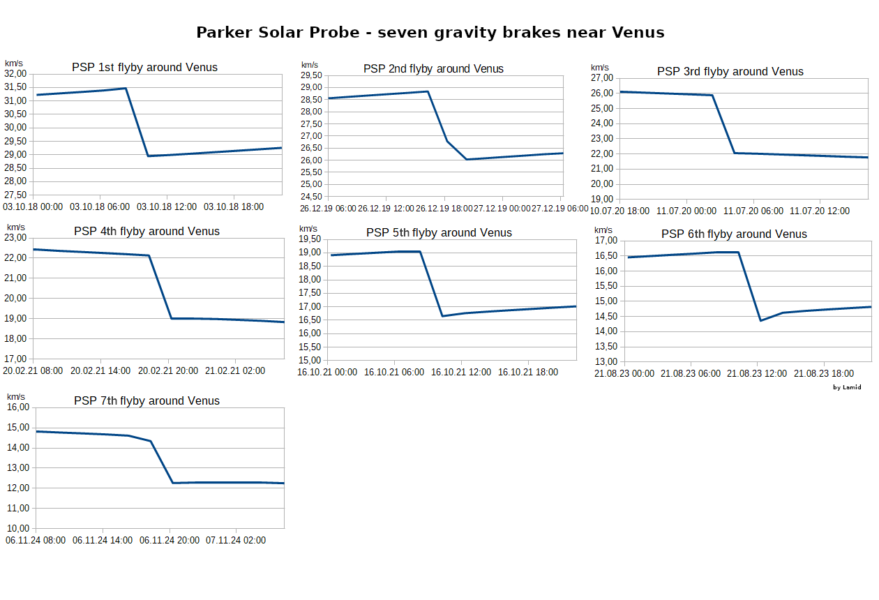 Seven gravity brakes by Venus